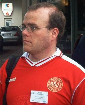 Rasmus Lerdorf, creator of PHP. Uploaded by User:MarkGGN.